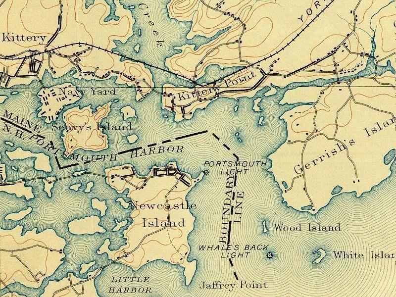 Portsmouth Harbor -- detail of 1893 U. S. Geological Survey map. Courtesy of the Dimond Library, Documents Department & Data Center, University of New Hampshire, Durham, NH. This shows Seavey's Island before it was conjoined with Fernald's Island, site of the Navy Yard.